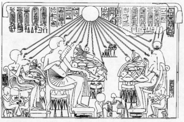 Banquet scene, Huya's tomb, El-Amarna. Akhenaten, Nefertiti, Tiye and children.